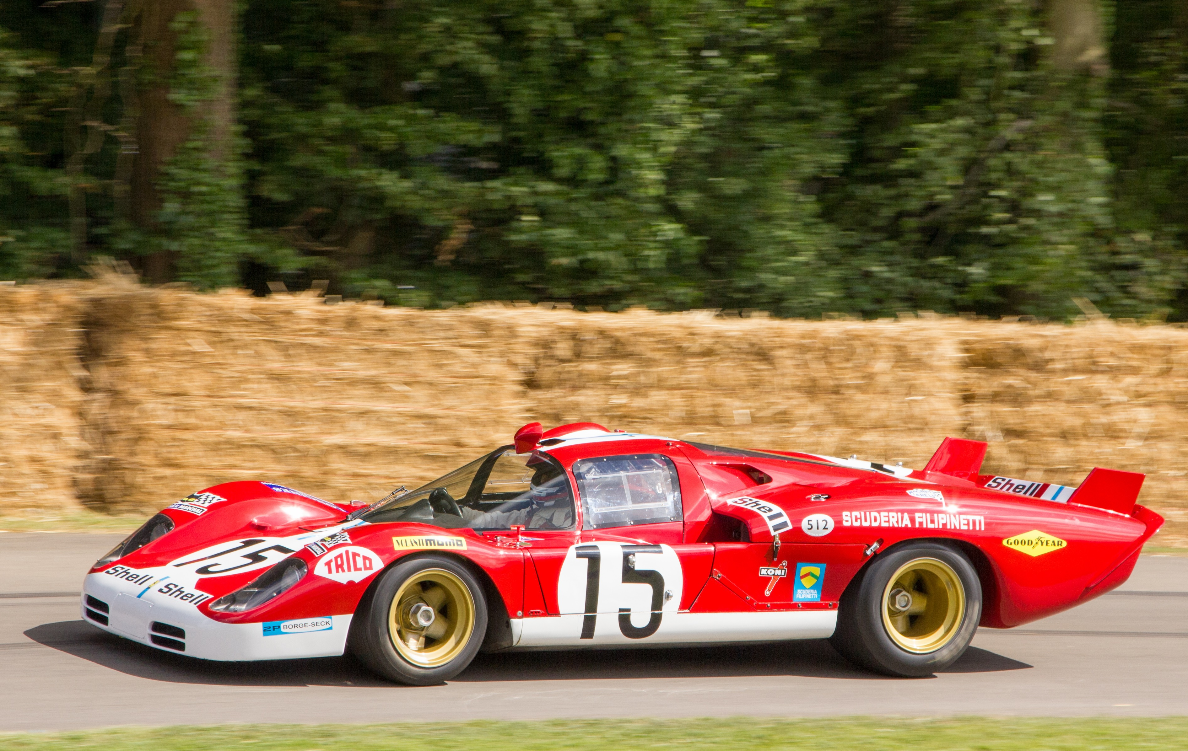 A Ferrari 512S of Scuderia Filipinetti at the 2014 Goodwood Festival of Speed.